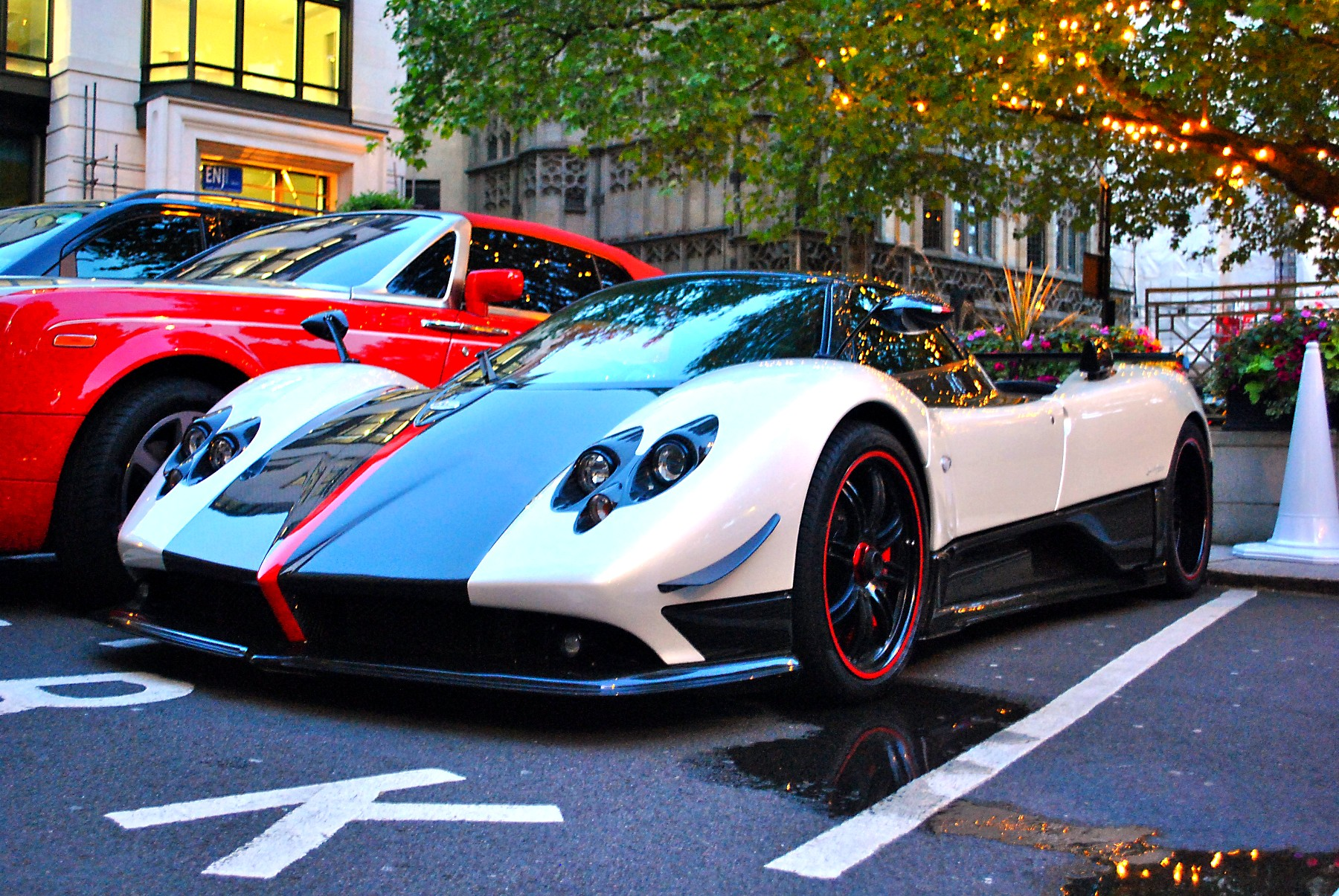 Pagani Zonda Cinque